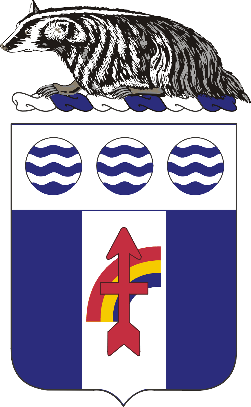 127th Infantry Regiment Coat Of Arms